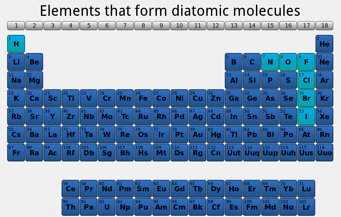 Periodic table with the elements that form homonuclear diatomic molecules (H, N, O, F, Cl, Br, I) highlighted. The base image is a screenshot from Kalzium.